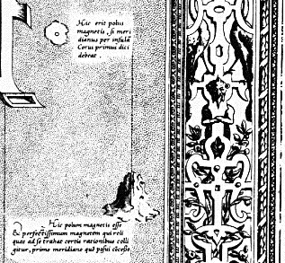 Mercator 1569 world map detail: magnetic poles